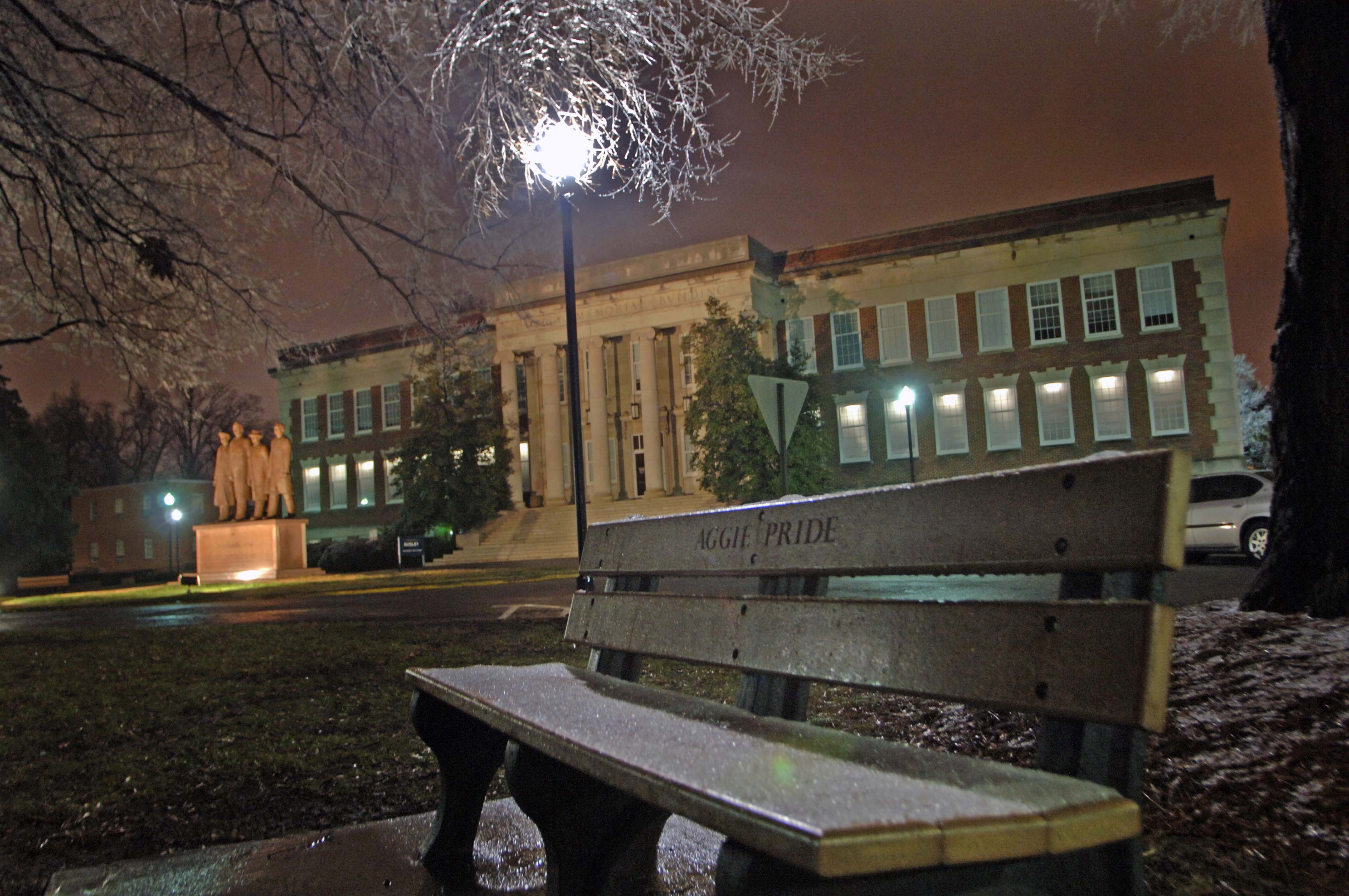 View of the A&T Four Statue at night